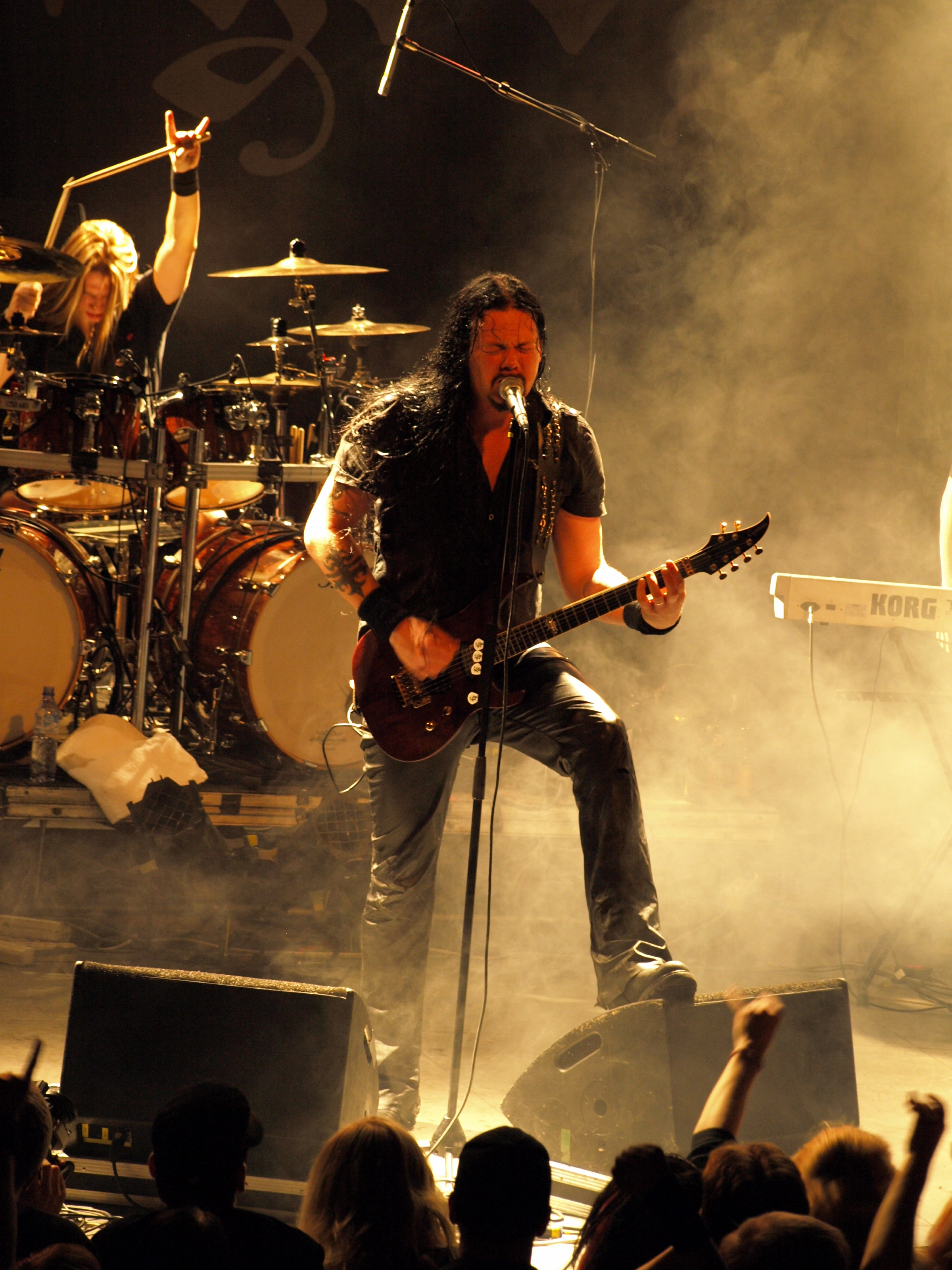 Swedish progressive metal band Evergrey live at Nosturi, Helsinki